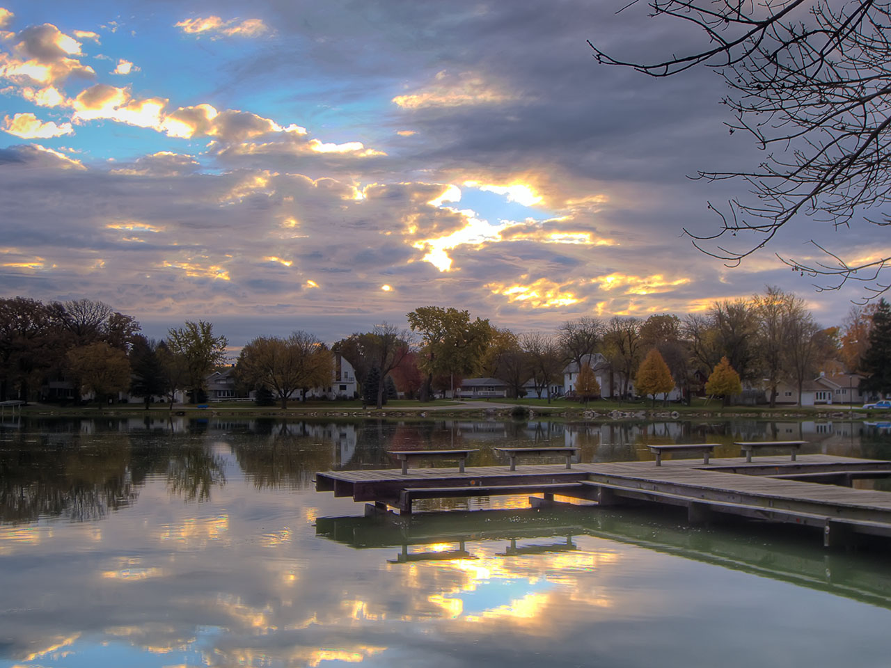 October 26: Sunrise on Five Island Lake, Emmetsburg, Iowa 3 exposure raw hdr.